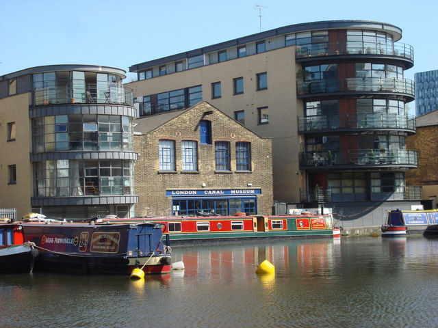 London Canal Museum, 12-13 New Wharf Road, Kings Cross, London